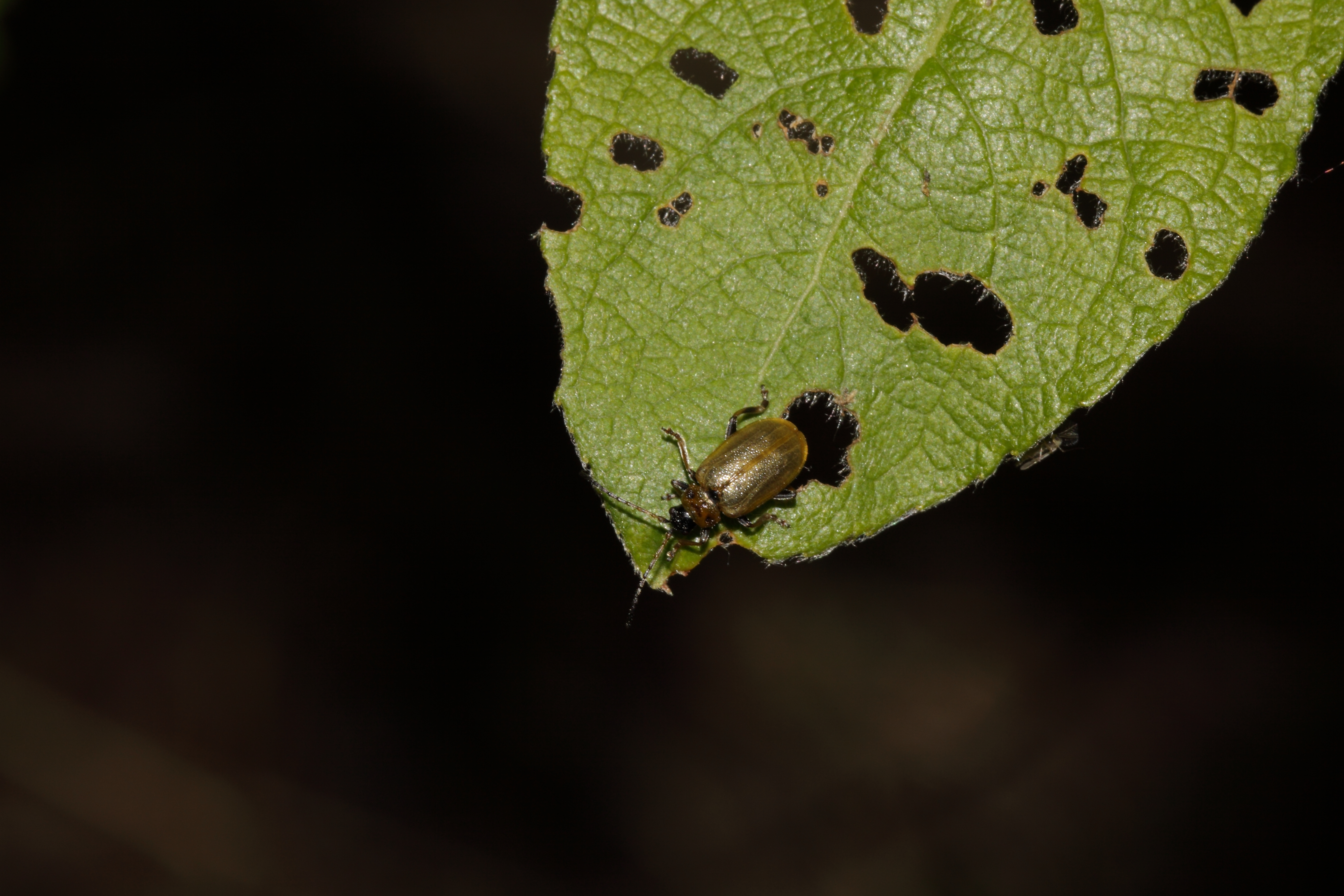 Man findet die Käfer von April bis September v.a. auf Weide, aber auch auf Weißdorn, Pappel und Birke. Phylum: Arthropoda Subphylum: Hexapoda Class: Insecta Subclass: Pterygota Order: Coleoptera (beetles, Käfer) Suborder: Polyphaga Superfamily: Chrysomeloidea Family: Chrysomelidae (leaf beetles, Blattkäfer) Subfamily: Galerucinae (Skeletonizing Leaf Beetles) Tribus: Galerucini Genus: Lochmaea WEISE, 1883 (Weidenblattkäfer) [det. "rockwolf", 2012, based on this photo] Lochmaea caprae (Braungelber Weidenblattkäfer) [rdet. Boris Büche, 2013, based on this photo] SE-Germany, Bavaria, Bayrischer Wald: vic. Spiegelau, 700-1000m asl., 18.05.2012 IMG_0604